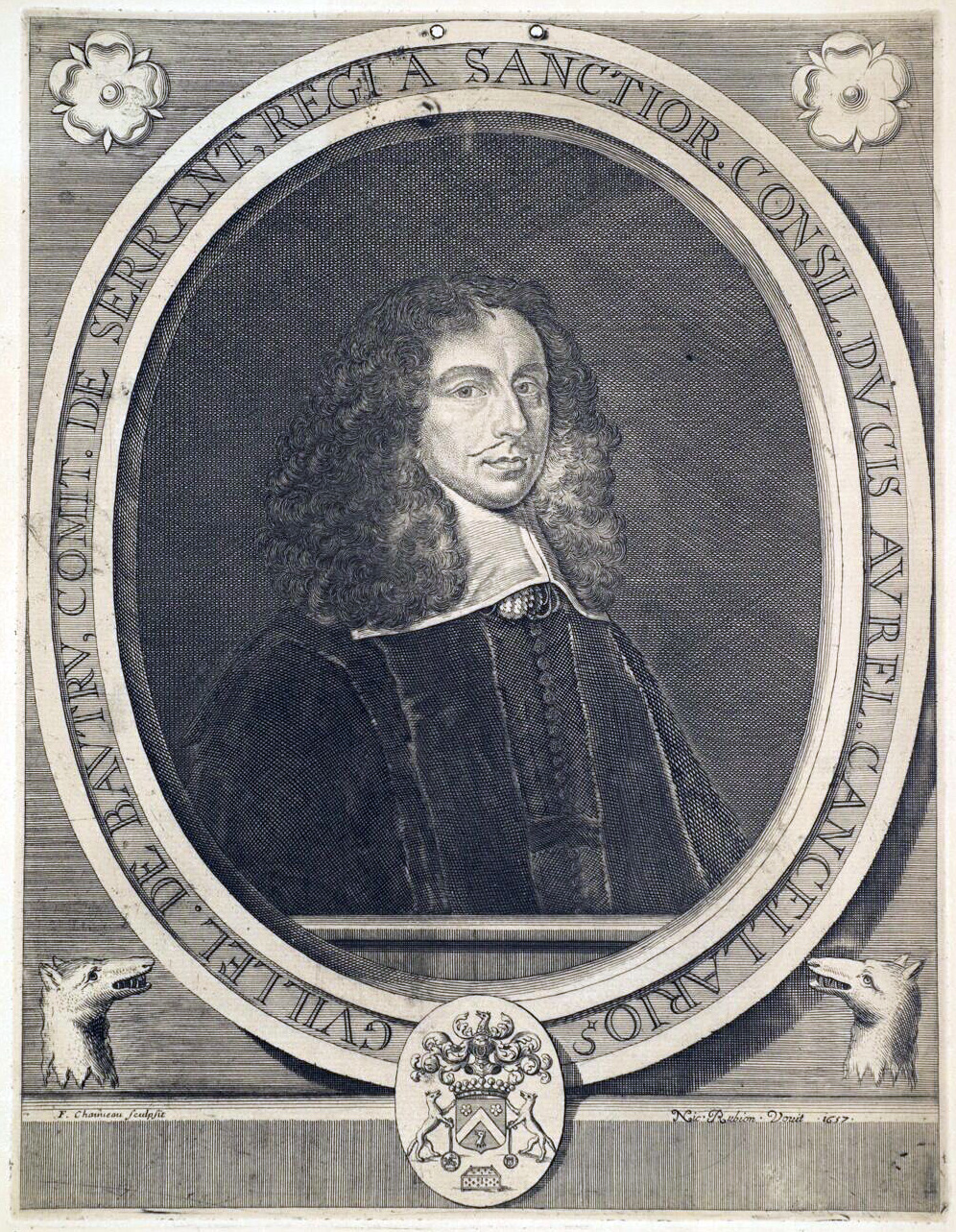 Portrait of Guillaume Bautru, Count of Serrant, 19th-century reimpression (from an engraved copper plate) made by A. Michel, conservator of the Musée Saint Jean d'Angers. Dimensions: 44,5 x 30,5 cm. Seller: Chez Herodote.